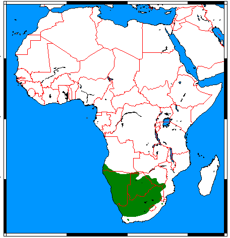 Range map for Brown Hyena (Parahyaena brunnea), made by me with help of Map depending on the range map at IUCN red list.